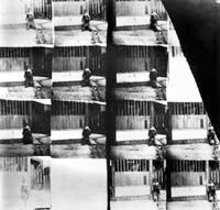 1930 (National Science Museum, London) frames copy of Louis Le Prince's 1888 Man Walking Around A Corner (tentative title).